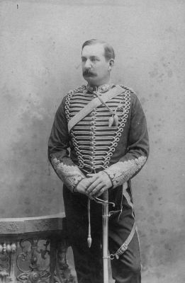 Henry Bloomfield Kingscote was born on 28 February 1843.1 He was the son of Colonel Thomas Henry Kingscote and Hon. Harriott Mary Anne Bloomfield.1 He married, firstly, Louisa Catherine Ridley, daughter of Maj.-Gen. Charles William Ridley and Hon. Henrietta Araminta Monck Browne, on 31 March 1870.1 He and Louisa Catherine Ridley were divorced in 1871.1 He married, secondly, Mary Hamilton, daughter of John Hamilton, on 20 April 1880 at Marylebone, London, England.1 He married, thirdly, Ella Burnett Haig, daughter of Henry Haig, on 23 June 1899.1 He died on 1 August 1915 at age 72.1 He gained the rank of Captain in the service of the Royal Horse Artillery.1